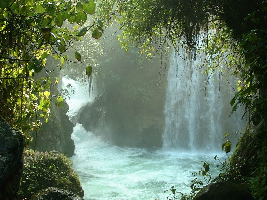 Puente de Dios Falls, Meksiko. es